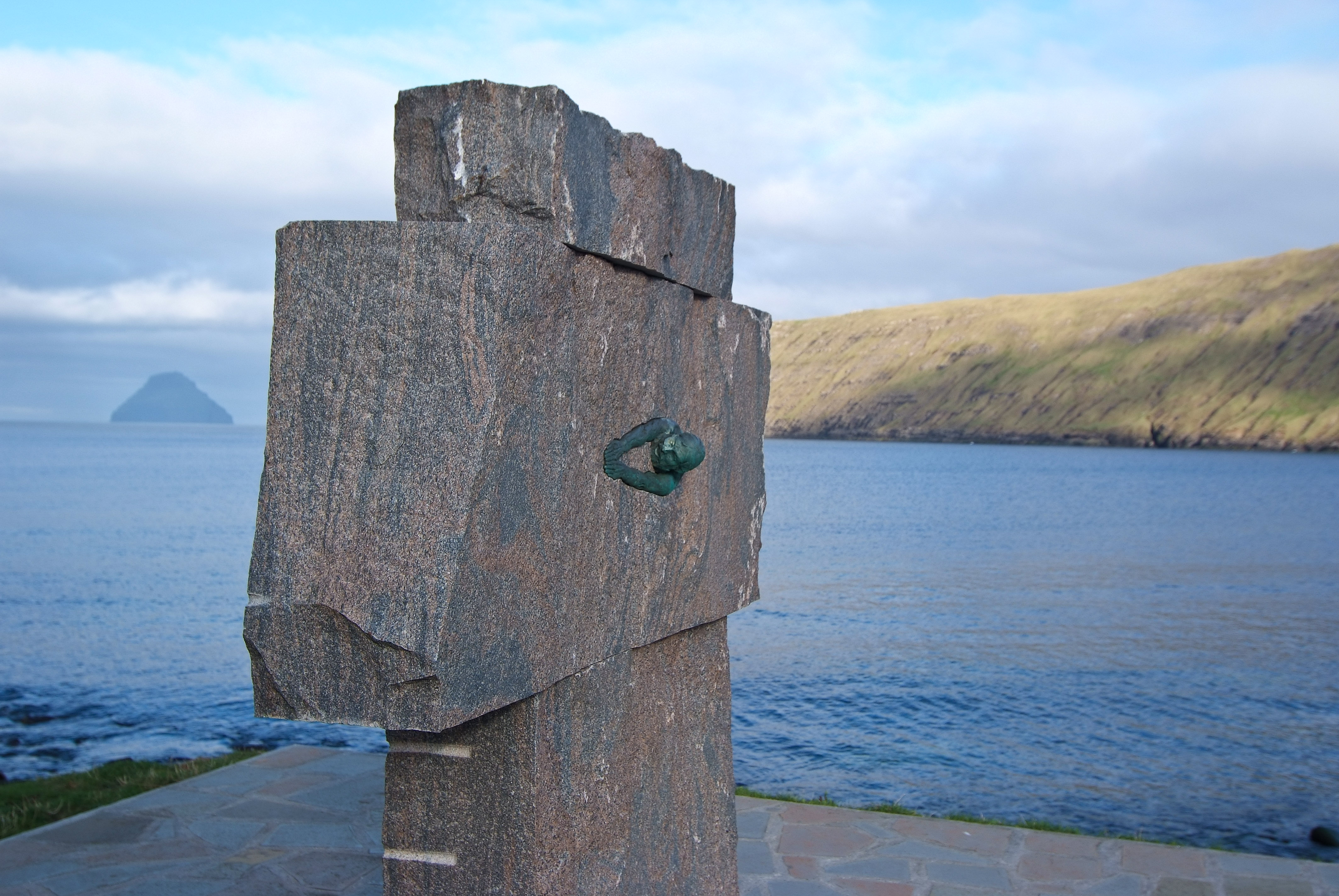 Sigmundur Brestisson Memorial in Sandvík